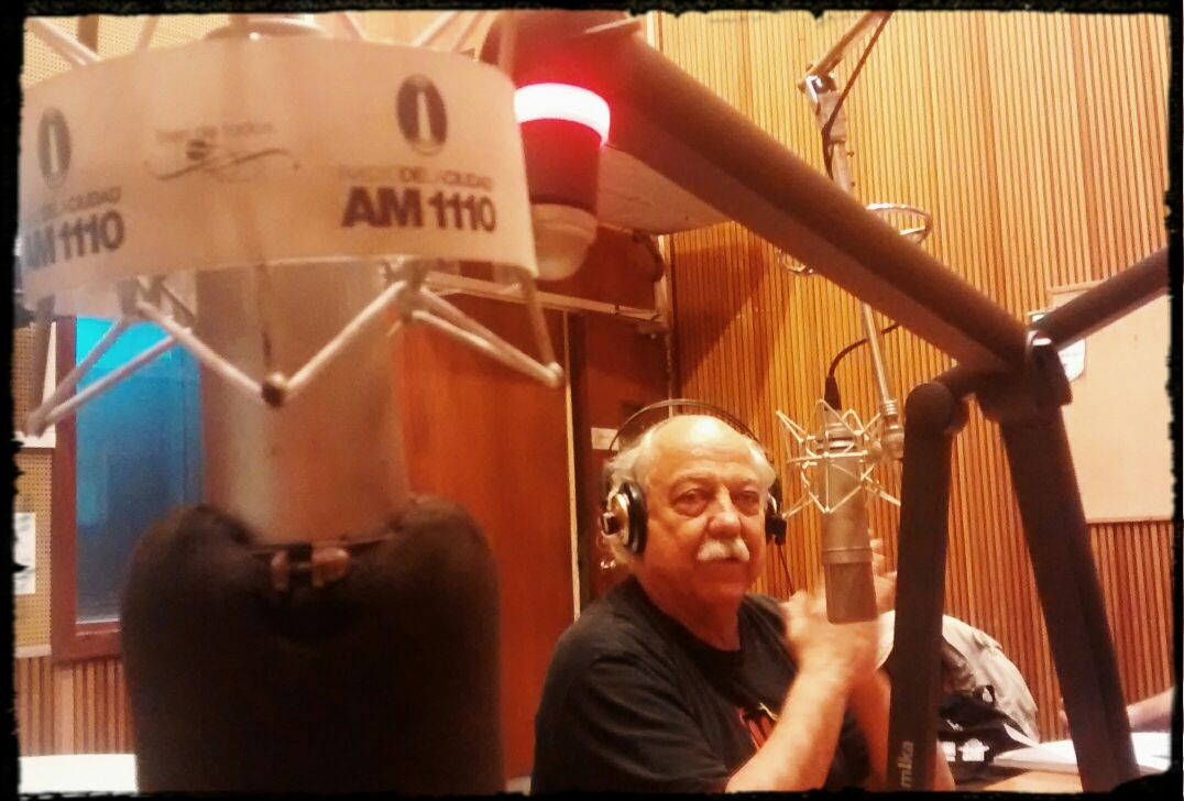 Pipo Lernoud